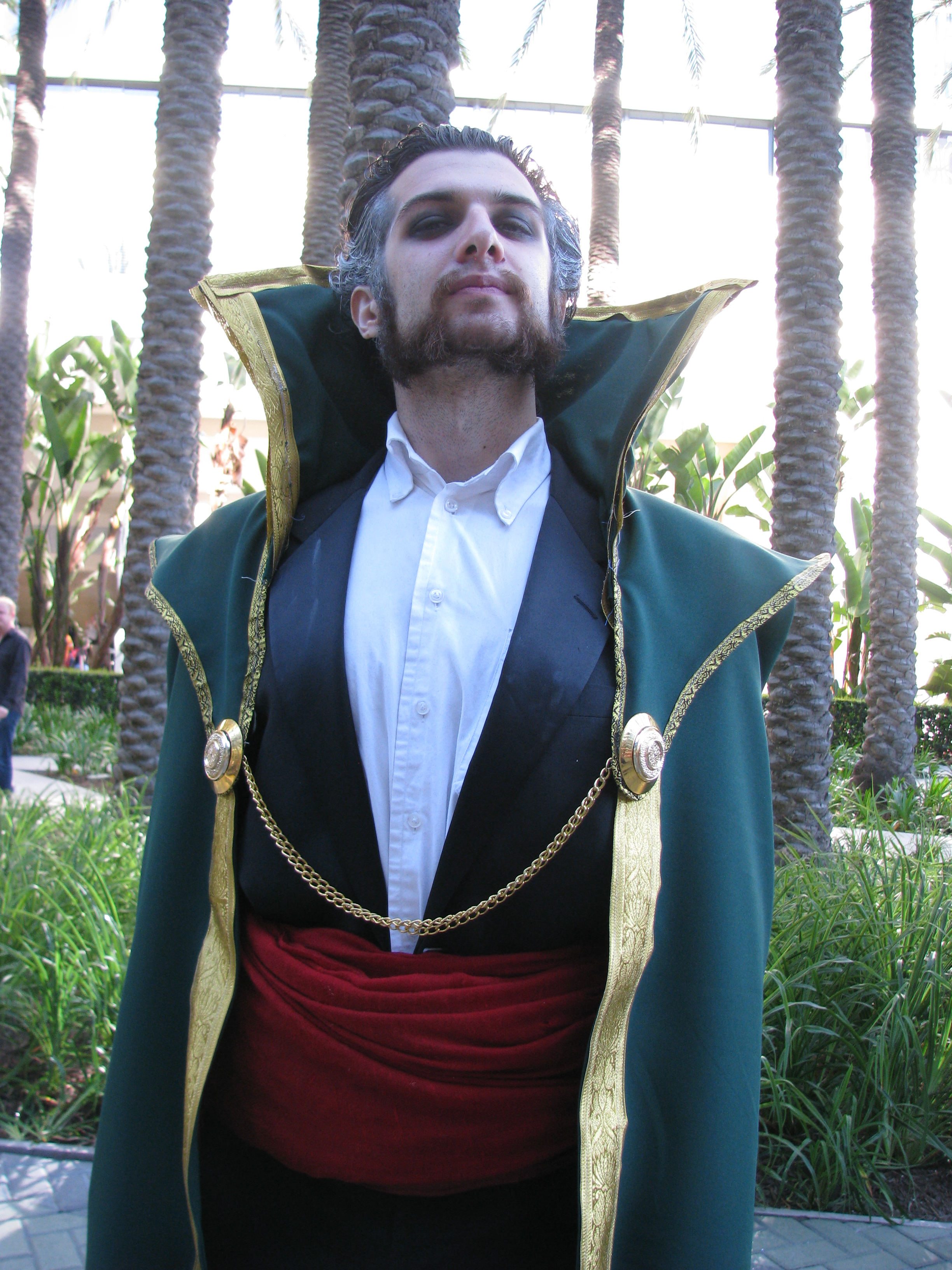 Cosplay of Ra's al Ghul, 2013